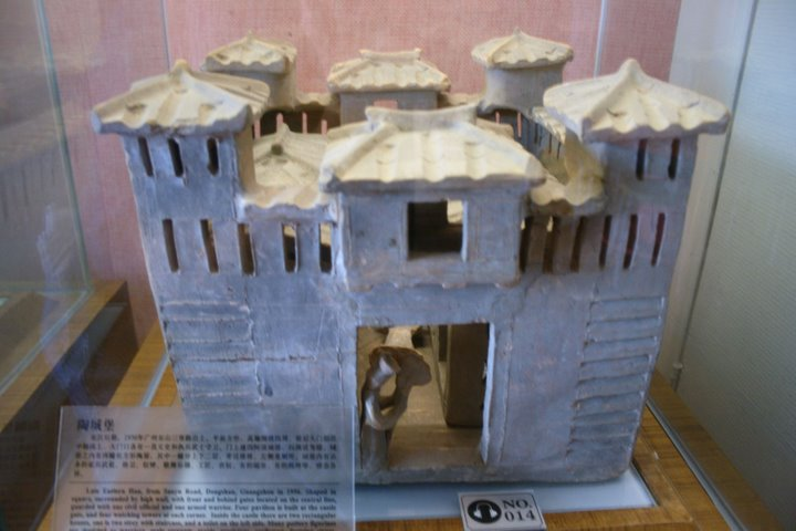 A Chinese pottery model of a fortified castle with gatehouses, watchtowers, and tiled rooftops, from the late Eastern Han (25–220 CE) period.